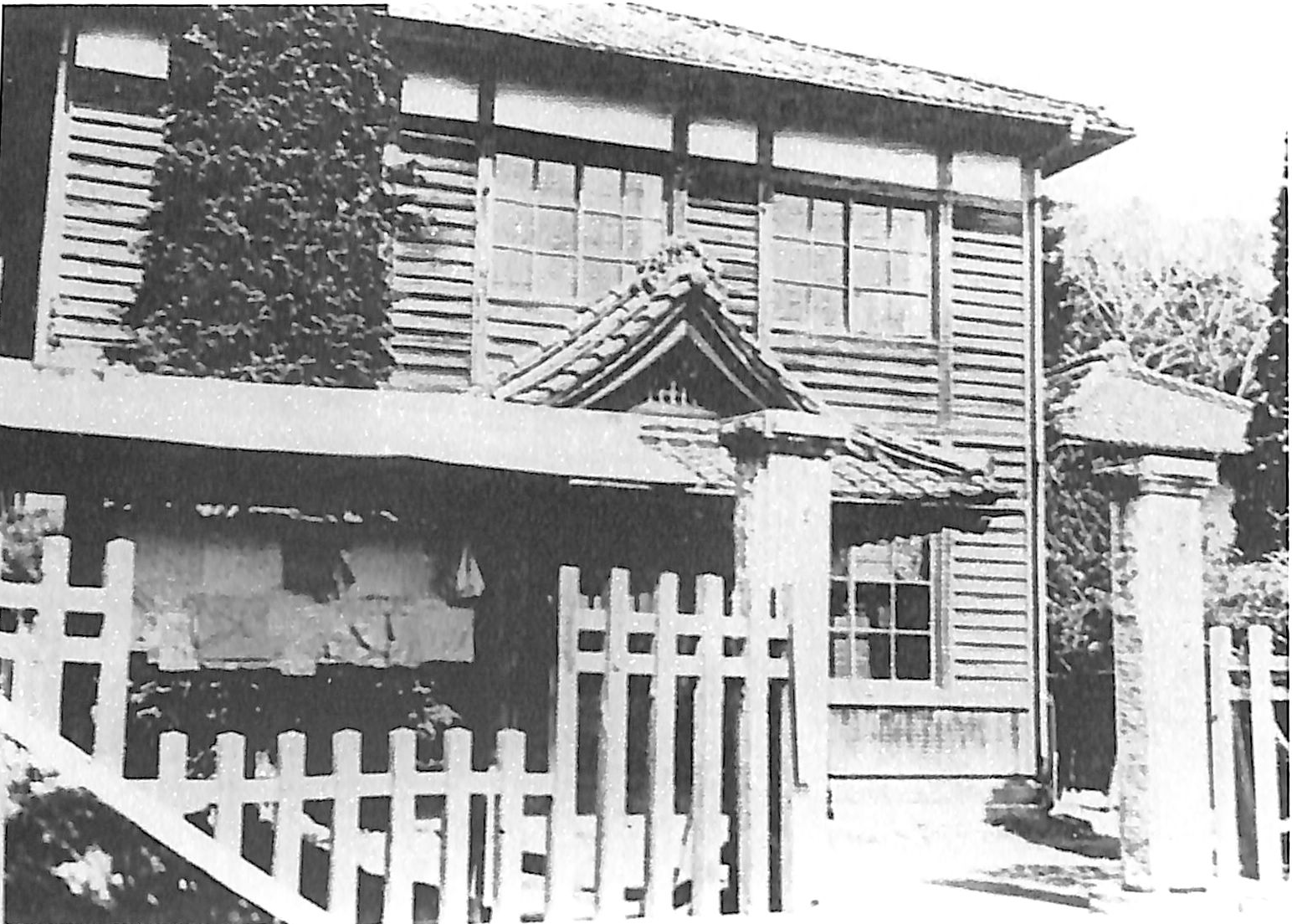 This was Manabe Branch of Tsuchiura City Hall in Tsuchiura, Ibaraki, Japan.